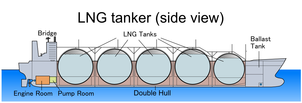 Liquefied natural gas (LNG) tanker, section view from side.